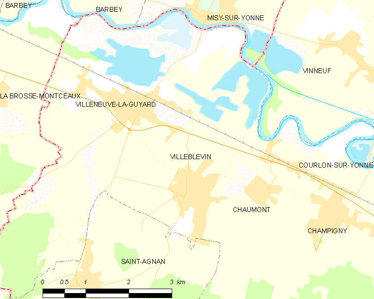 Map of French municipality Villeblevin